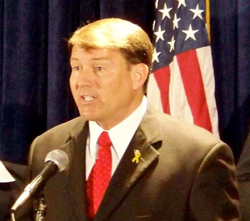 Gov. Mike Rounds at Iowa White House Forum on Health Reform, March 23